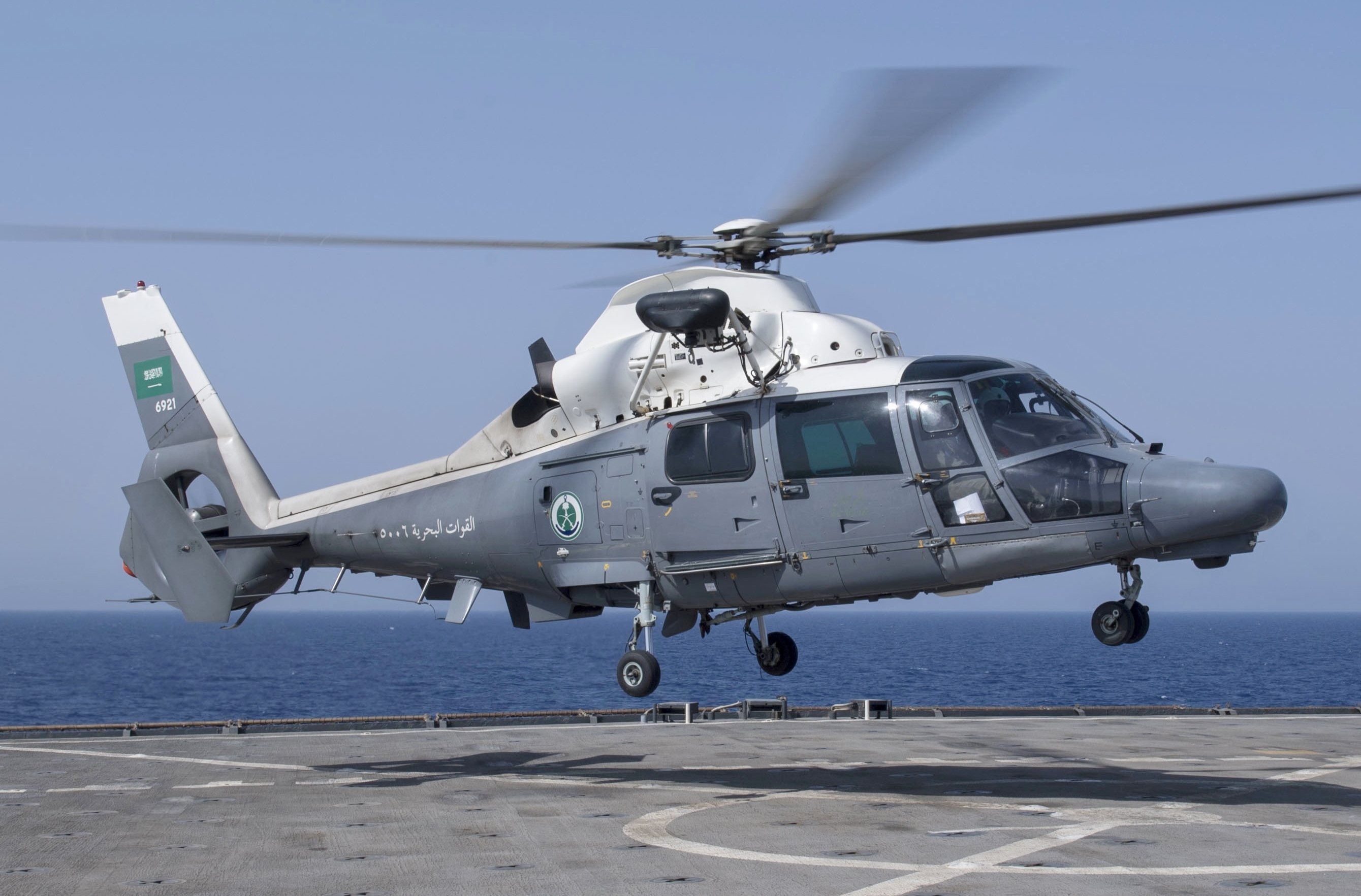 180507-N-PC620-0283 U.S. 5TH FLEET AREA OF OPERATIONS (May 7, 2018) An AS-365 Dauphin helicopter assigned to Royal Saudi Naval Forces lands on the flight deck of the Harpers Ferry-class dock landing ship USS Oak Hill (LSD 51) during deck landing qualifications May 7, 2018. Oak Hill, home-ported in Virginia Beach, Va., is deployed the U.S. 5th Fleet area of operations in support of maritime security operations to reassure allies and partners, and preserve the freedom of navigation and the free flow of commerce in the region. (U.S. Navy photo by Mass Communication Specialist 3rd Class Michael H. Lehman/Released)